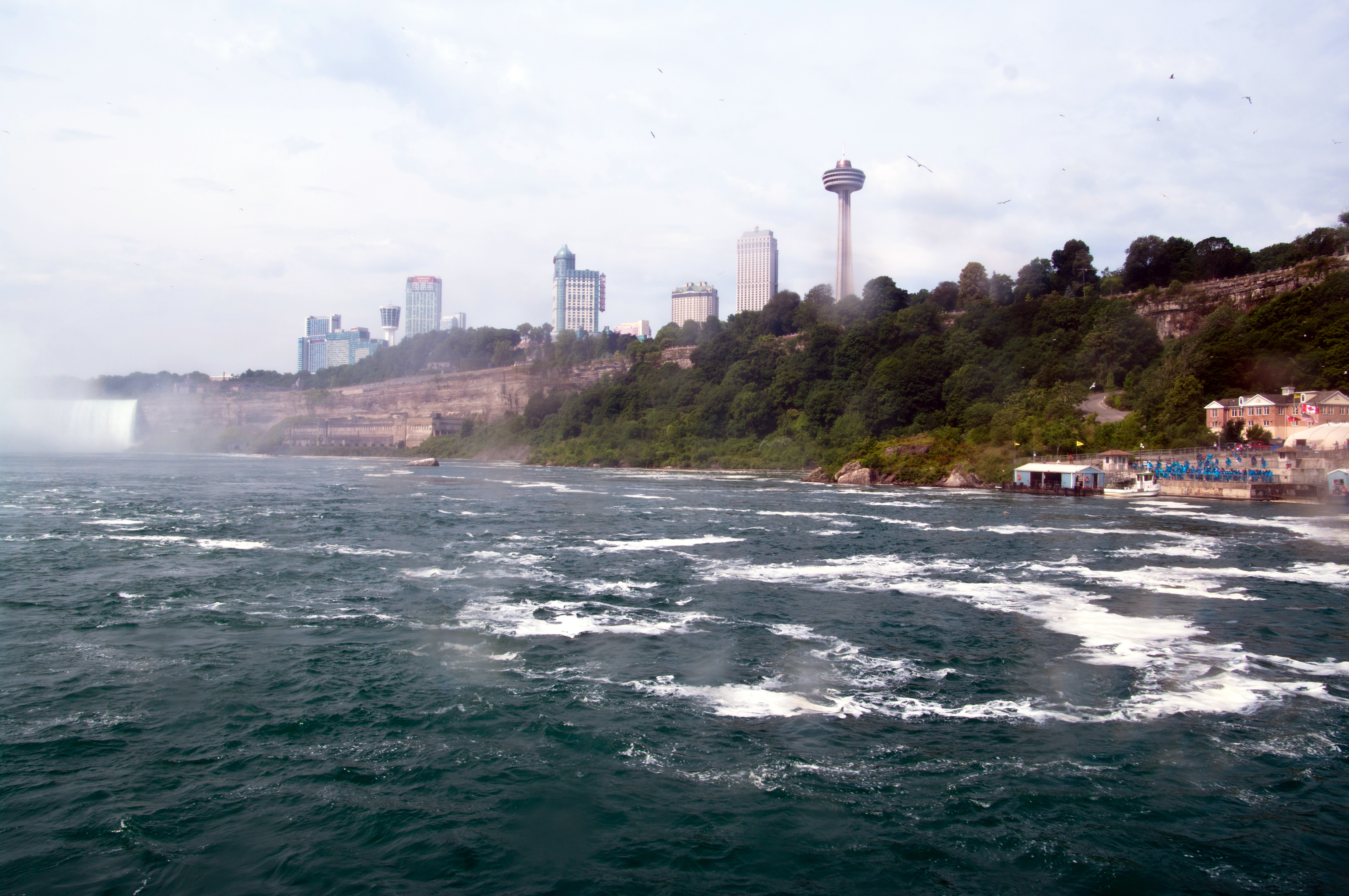 Skyline of the Fallsview resort as seen from the Niagara River